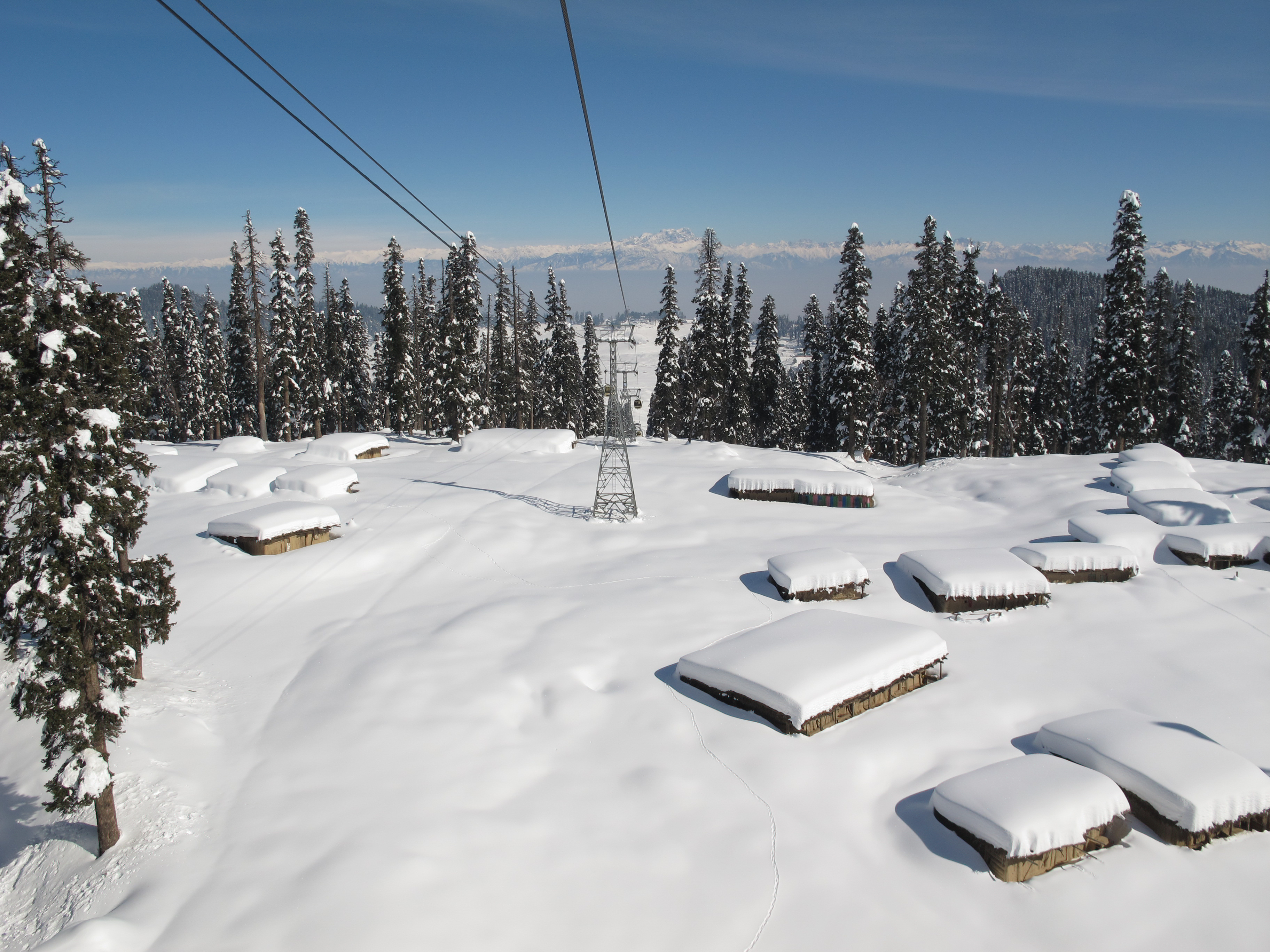 Cable car in Gulmarg, Jammu and Kashmir